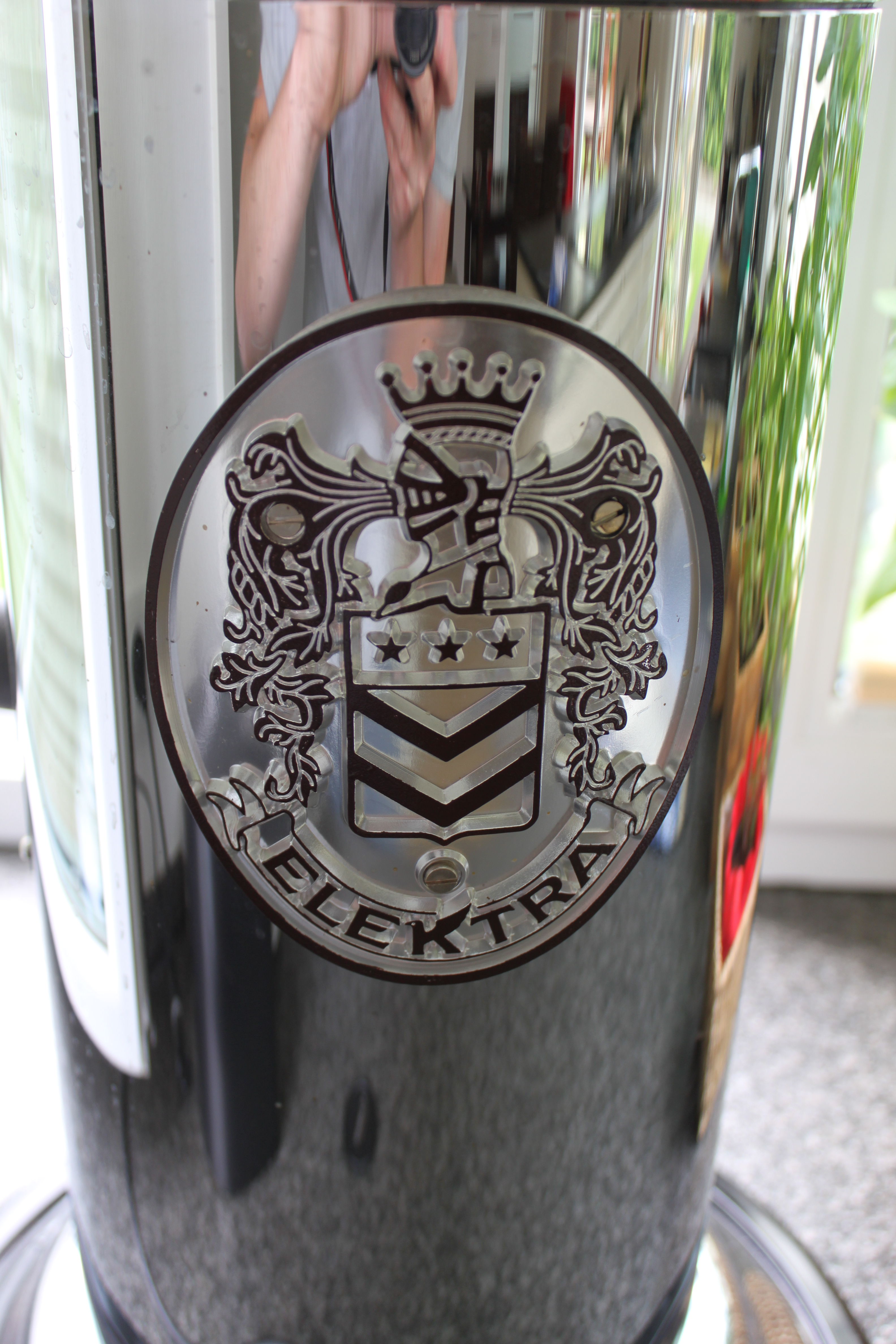 Typical lavish ornate on an "Elektra" coffee machine. Ornate on the back of a Elektra Mini Verticale in chrome